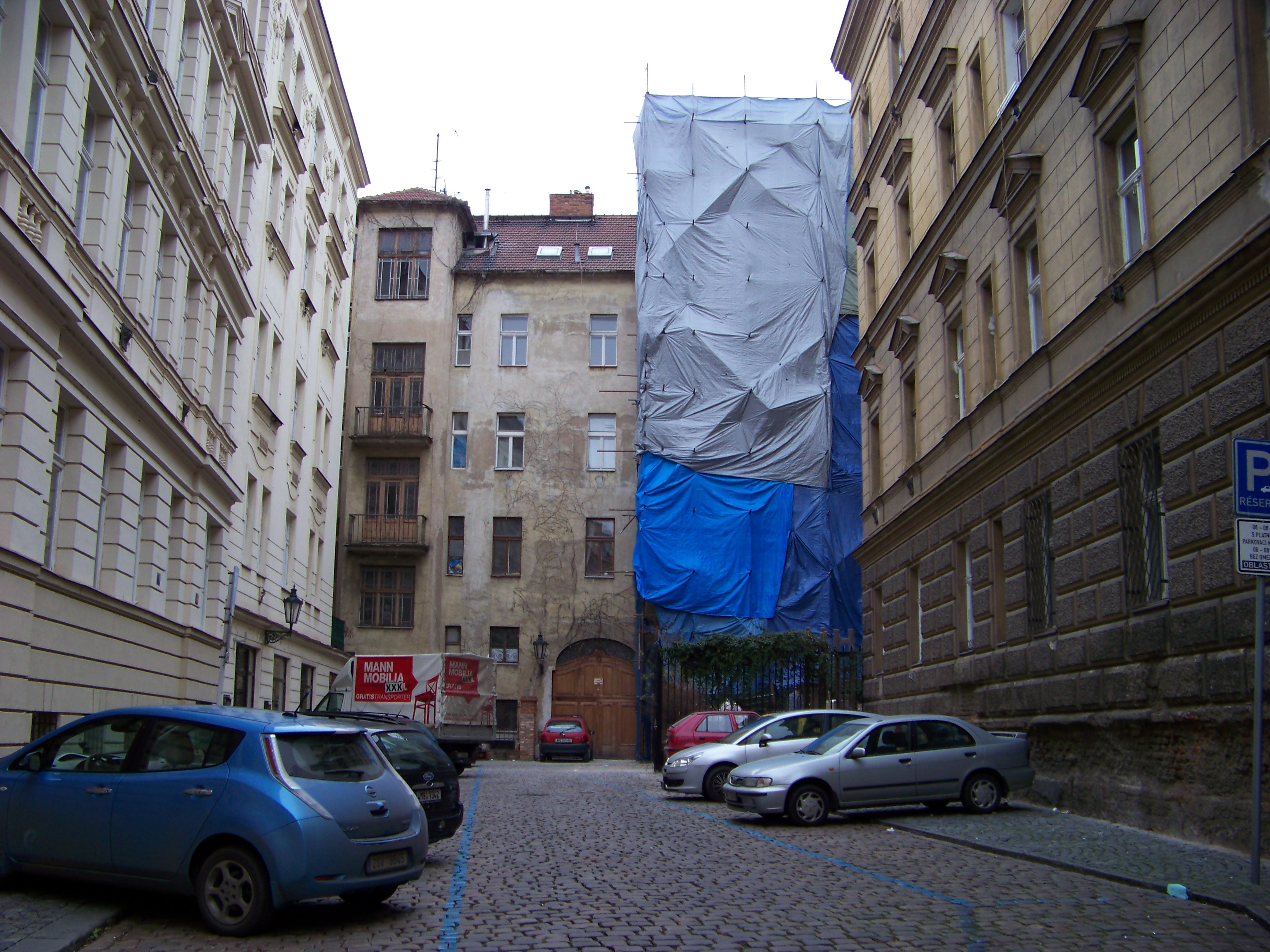 Prague-Old Town, Czech Republic. Boršov, 273/5, 272/6, 268/7, 267, 266/8. - OpenStreetMap (Info)